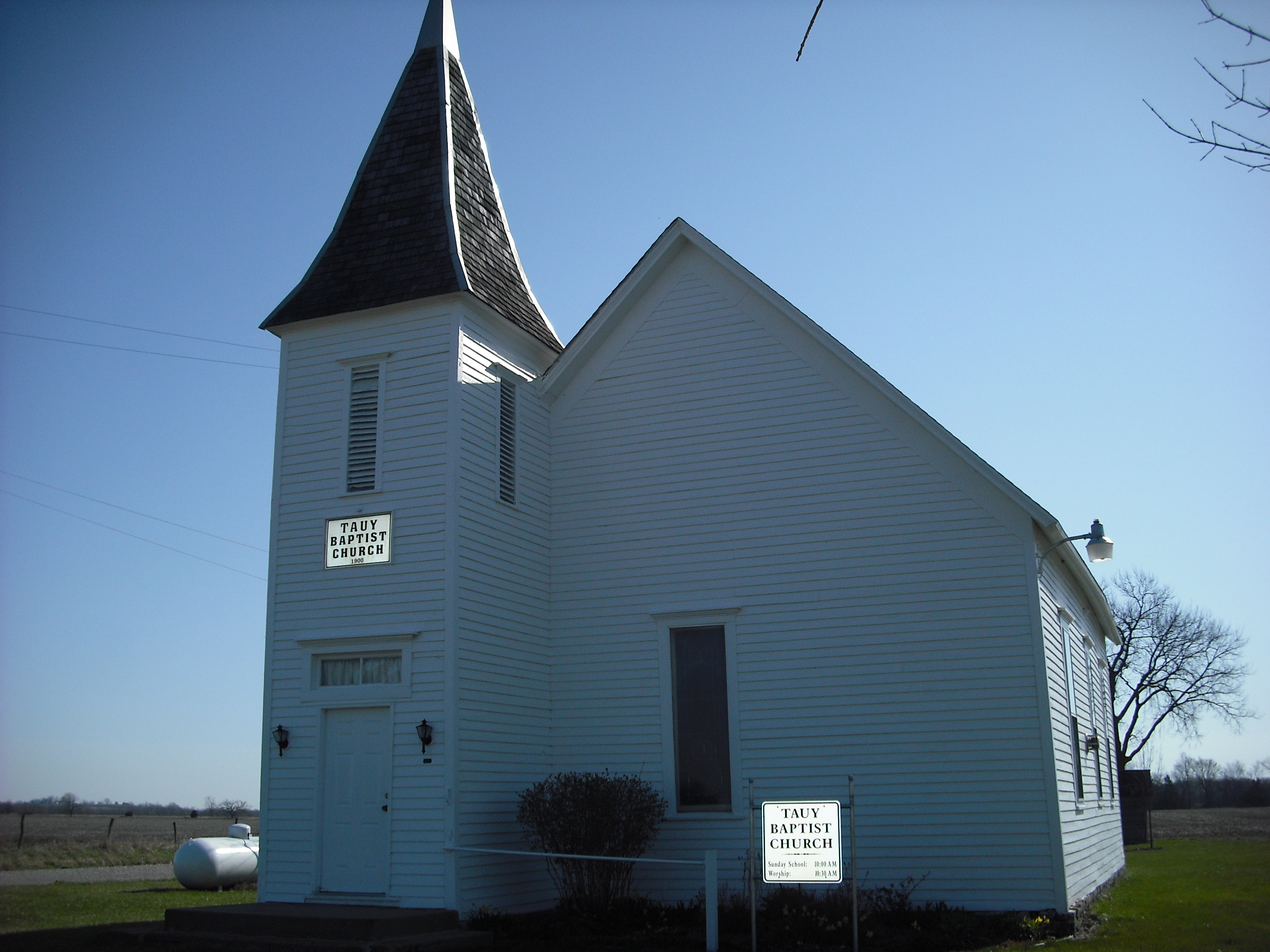 The Tauy Baptist Church located two and a half miles northeast of Ottawa, Kansas in Hayes Township.